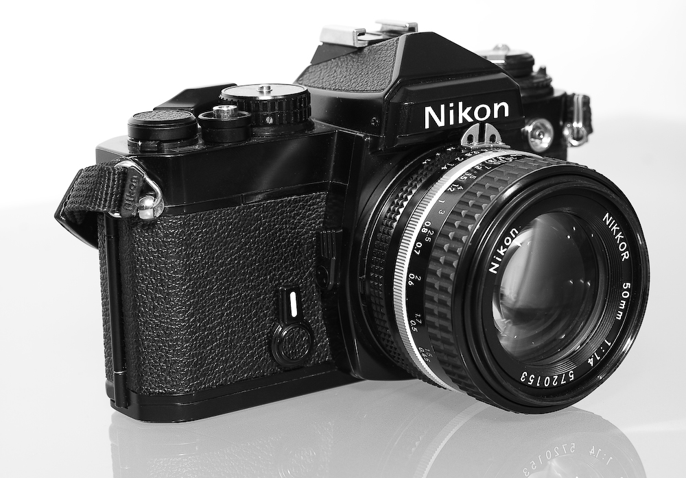 Nikon FE SLR camera with Nikkor 50 mm f/1.4 lens